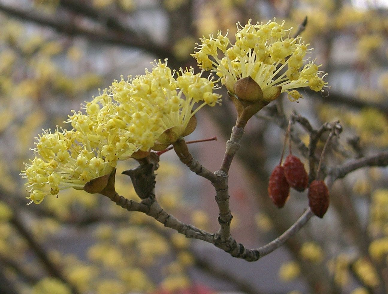 Cornus officinalis